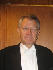 Geert Jan Olsder, Dutch mathematician, in 2008